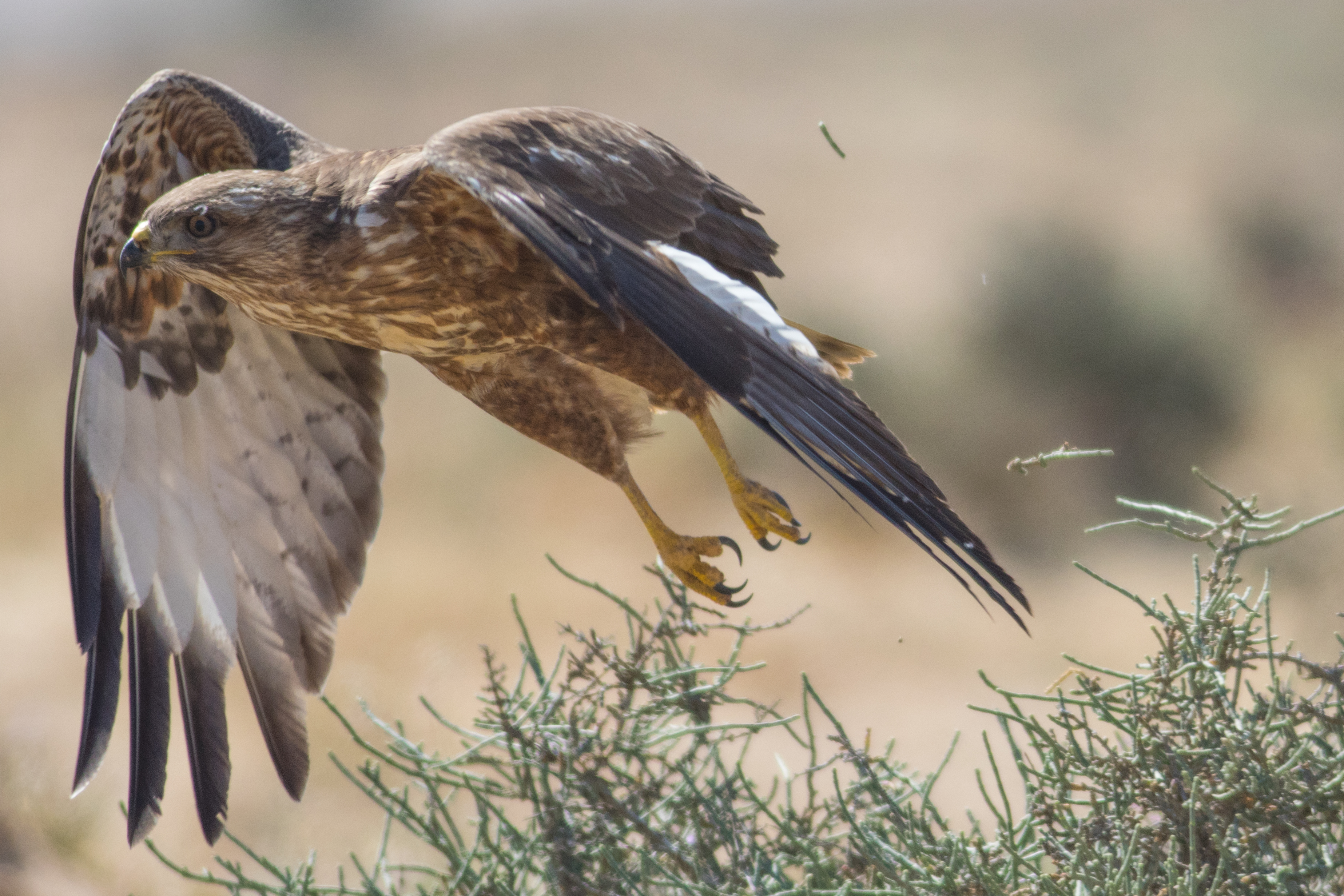 Common buzzard (Buteo buteo vulpinus), Yeroham, Israel.